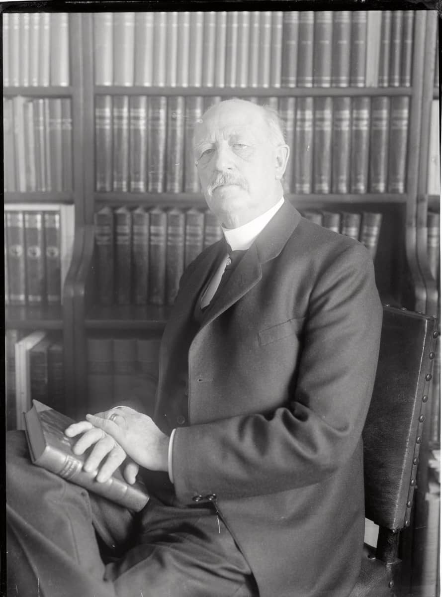 Carl Magnus Fürst (1854-1935), Swedish anatomist, photographed by Per Bagge 1929